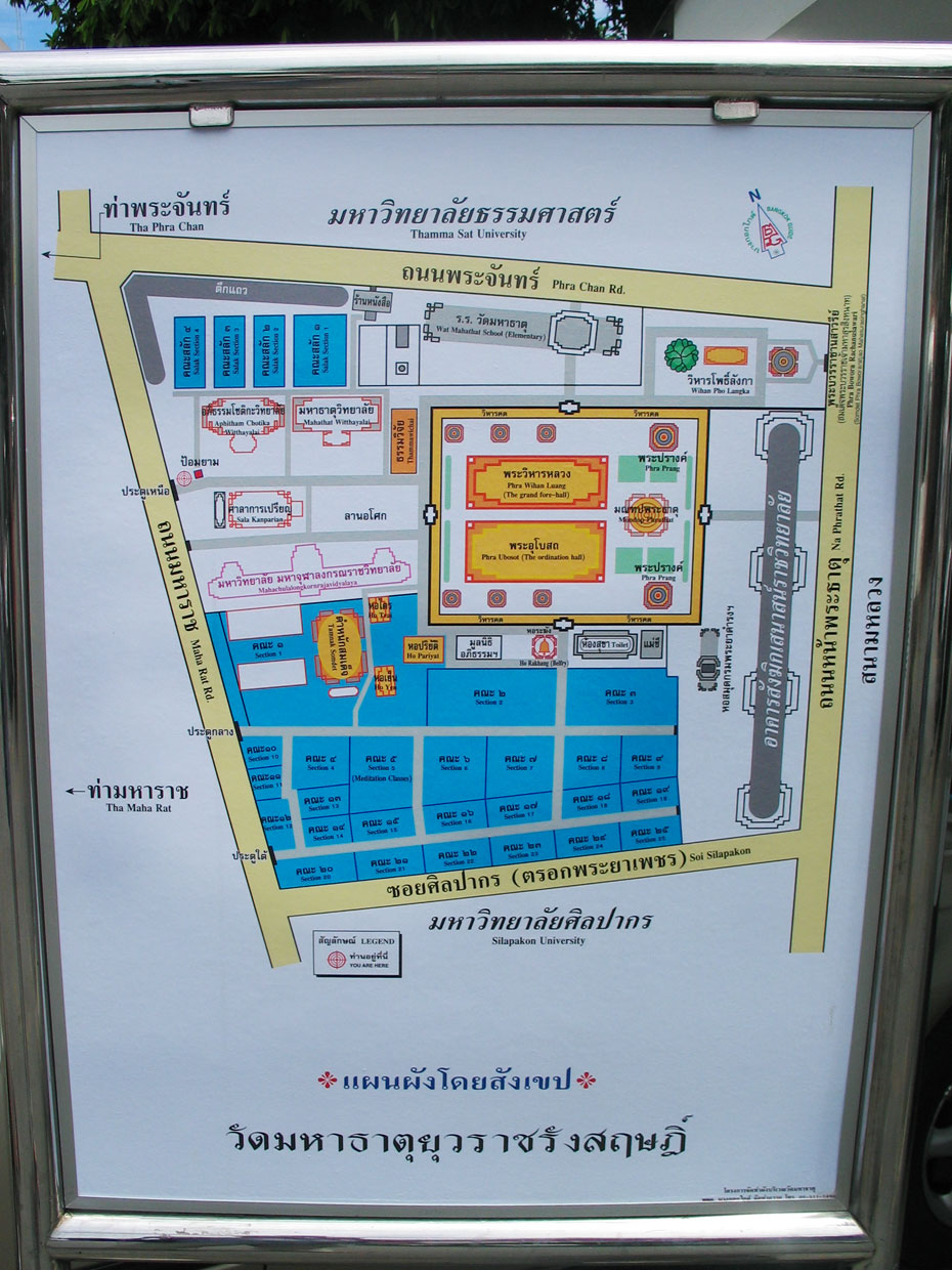 Plan of Wat Mahathat, Bangkok, Thailand